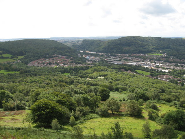 View from Craig yr Allt View from path to Craig yr Allt, towards Taff's Well, Ty Rhiw estate and the Taff Gap. The Bristol Channel can be seen in the far distance (e.g. top left) and Penarth headland is also visible.